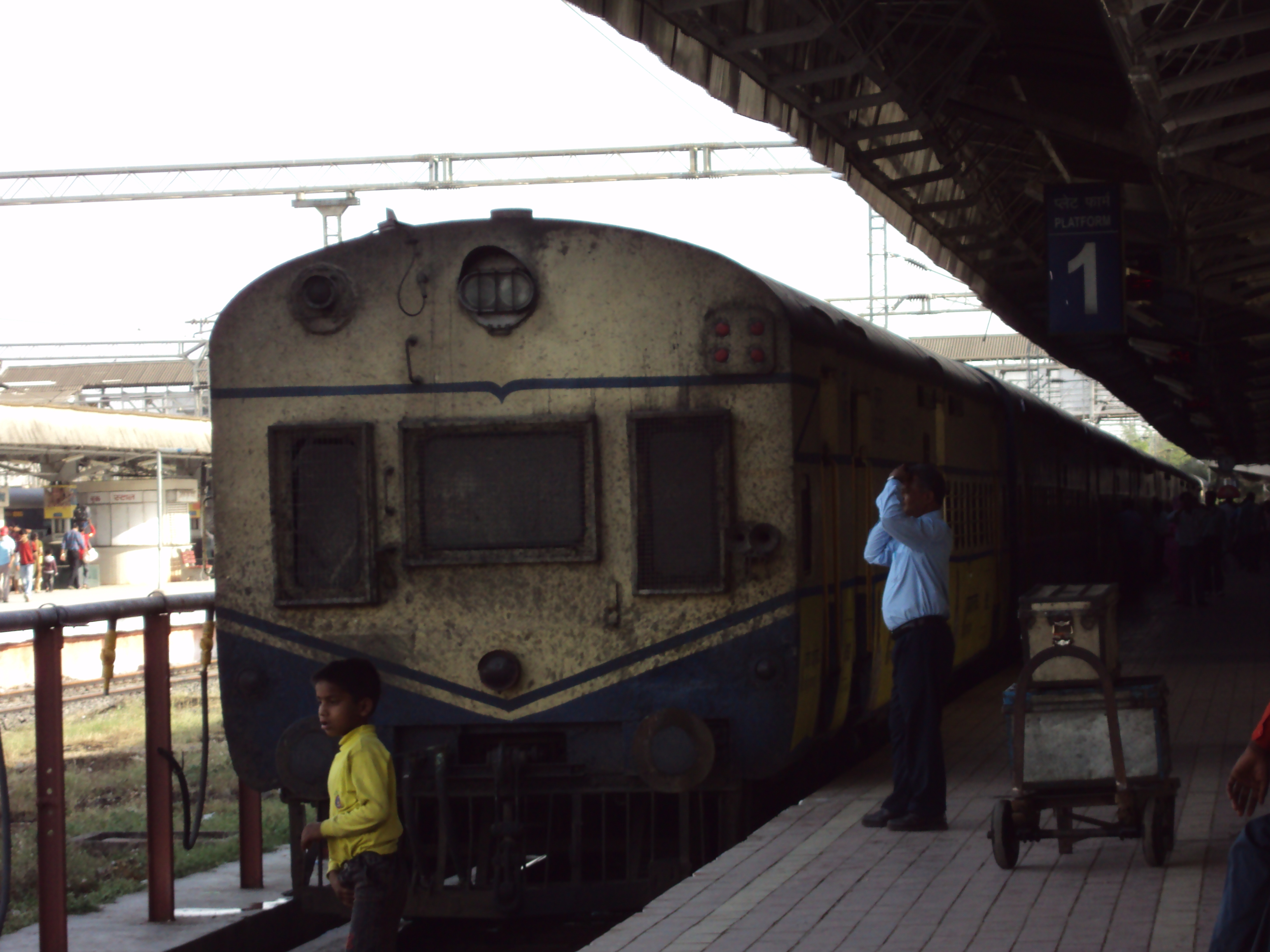 Bhopal-Indore Intercity Express, about to depart for Indore from platform no. 1, Habibganj Railway Station, Bhopal on the evening of 31st of March, 2010.